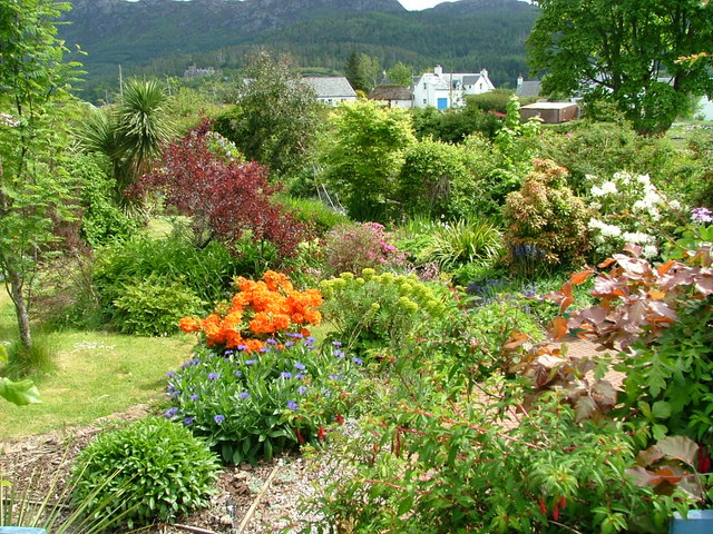 Garden in Plockton One of many beautiful gardens in the village. The gardens belong to the houses on Main Street and are situated across the road from them.